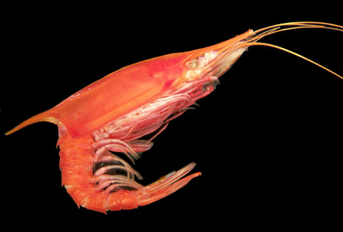 PRESERVED_SPECIMEN; ; ; 70% alc.; Det. by: Christopher B. Boyko 2005; IZ number 28037; lot count 1; 2002-07-19T00:00:00Z